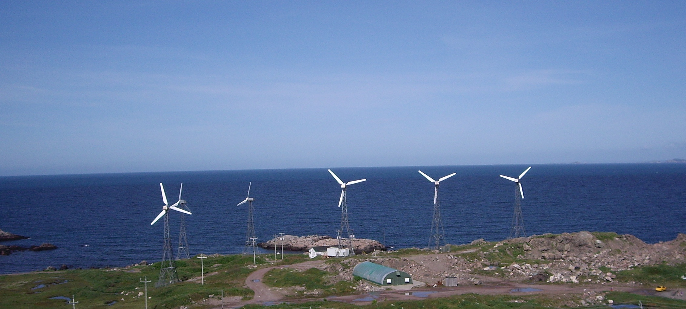 Wind-diesel hybrid power system in Ramea.